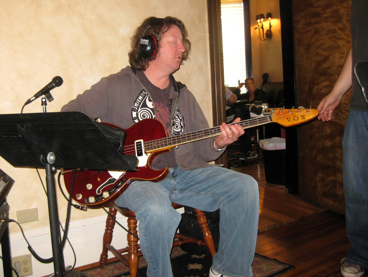 Steve Mackey playing VOX APOLLO VI VOX APOLLO VI bass guitar (mfg.1967-68) ...awesome Vox bass!